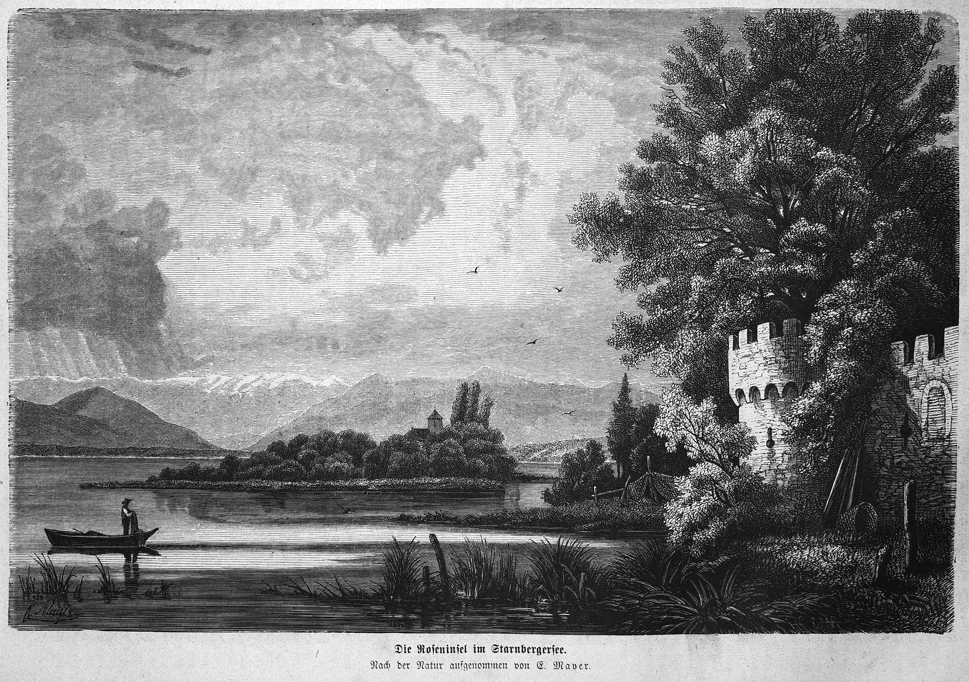 caption: "Die Roseninsel im Starnbergersee. Nach der Natur aufgenommen von E. Mayer."